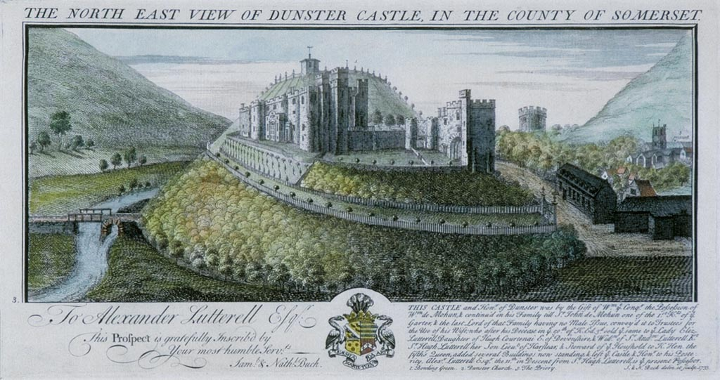 Copper engraving entitled "North East View of Dunster Castle in the County of Somerset"